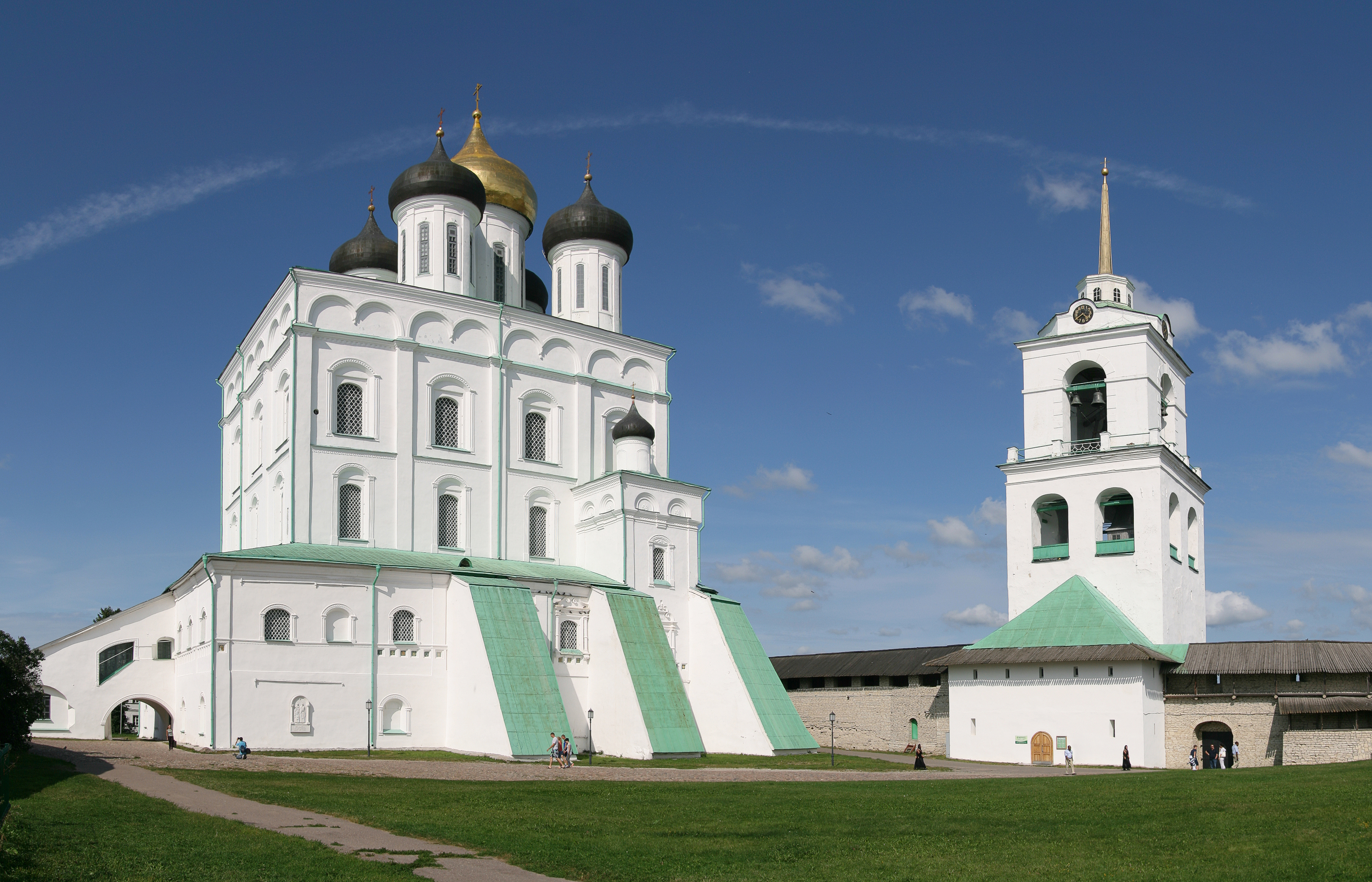 Holy Trinity Cathedral and Bell Tower in Pskov Kremlin